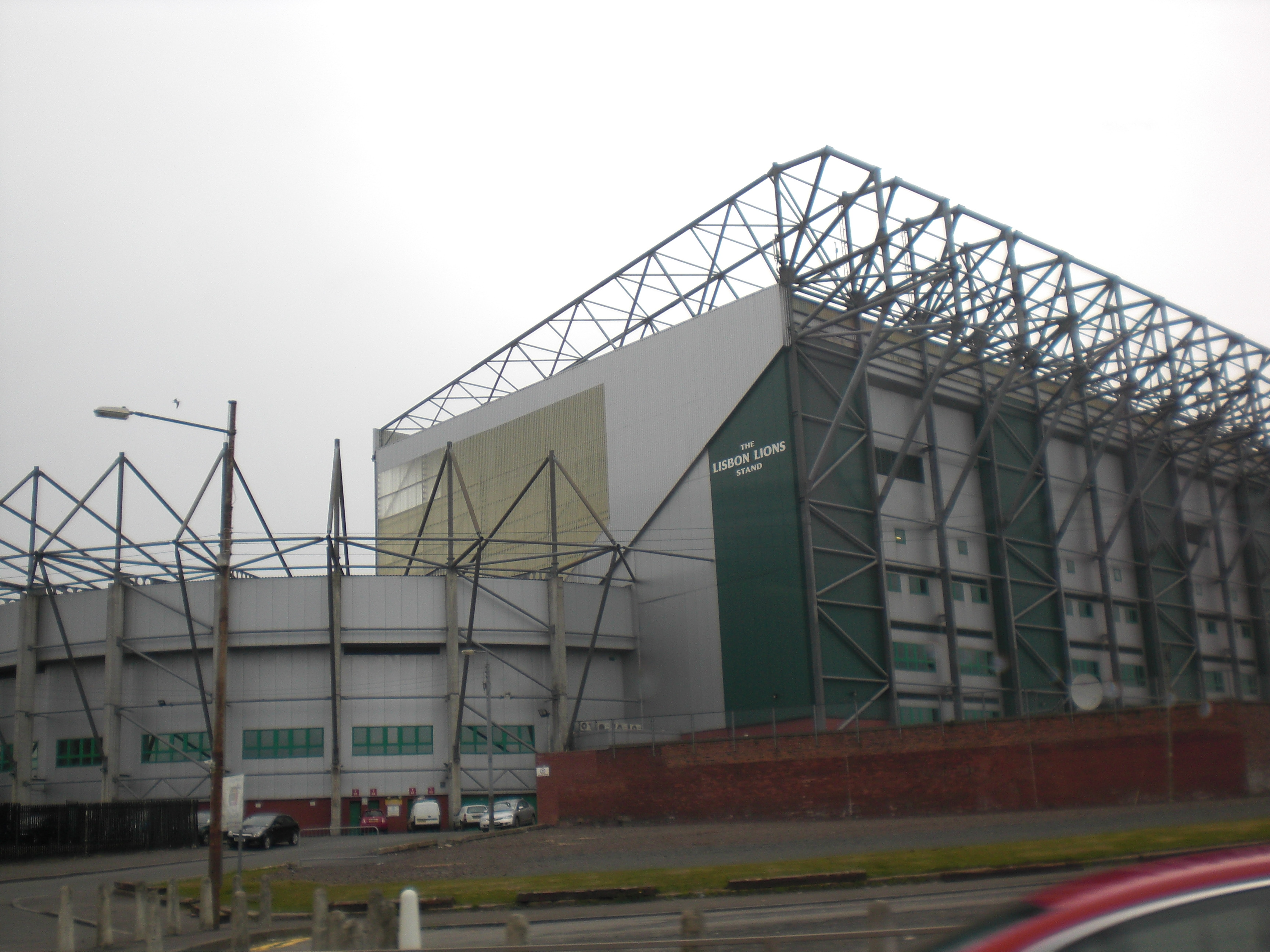 Celtic FC's Parkhead Stadium, the Lisbon Lions Stand.